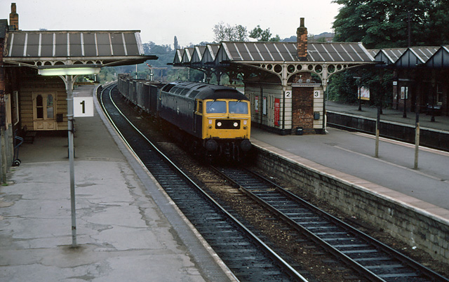 Elstree Station Seen prior to the electrification of the midland mainline from St. Pancras. The old Midland Railway station awnings are still in place. A class 47 brings a freightliner train through on the slow lines. in the distance the twin bores taking the lines under Deacon's Hill can be seen.